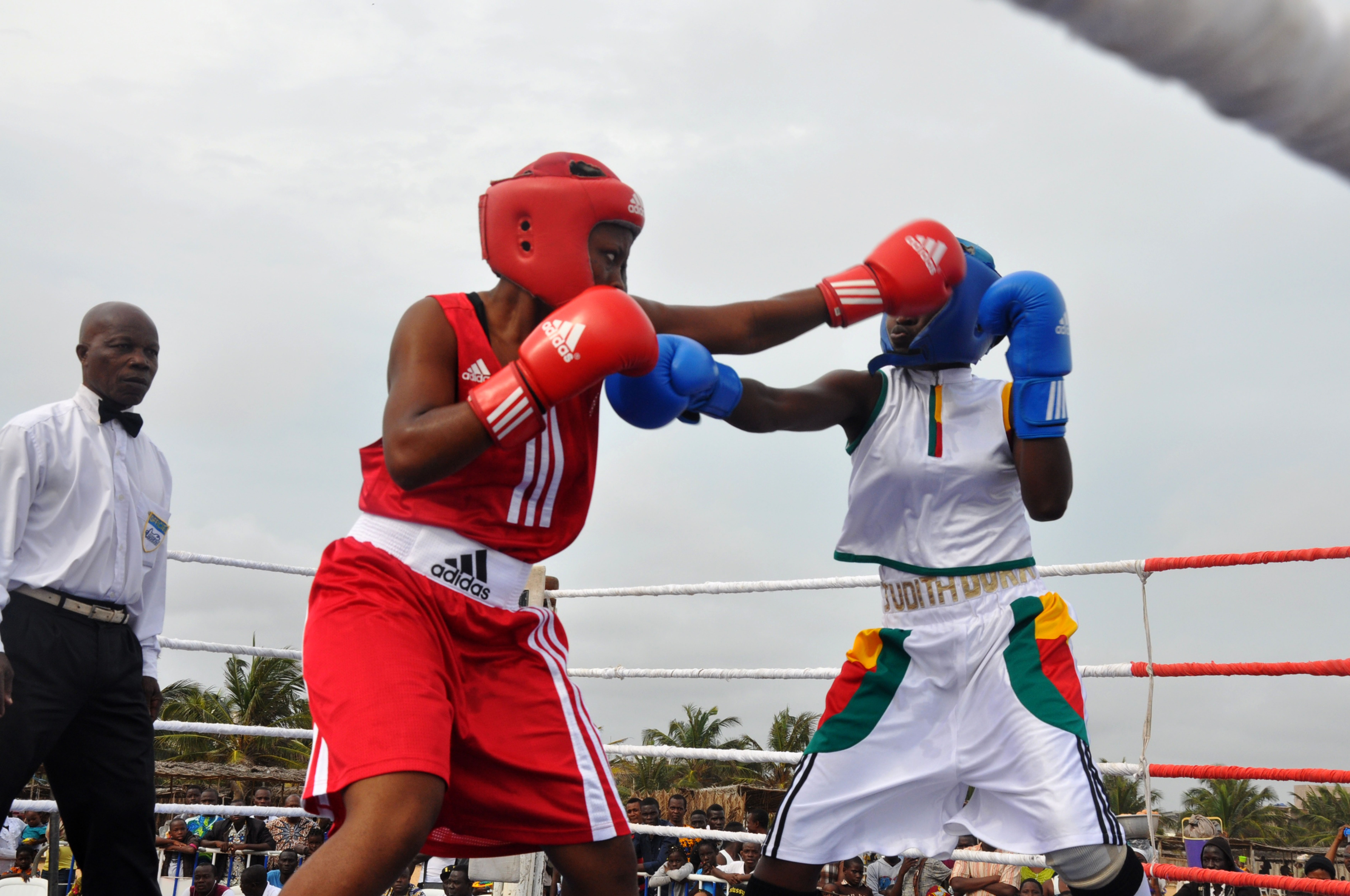 to represent Benin the younger boxers measure themselves This is an image with the theme "Africa on the Move or Transport" from: Benin